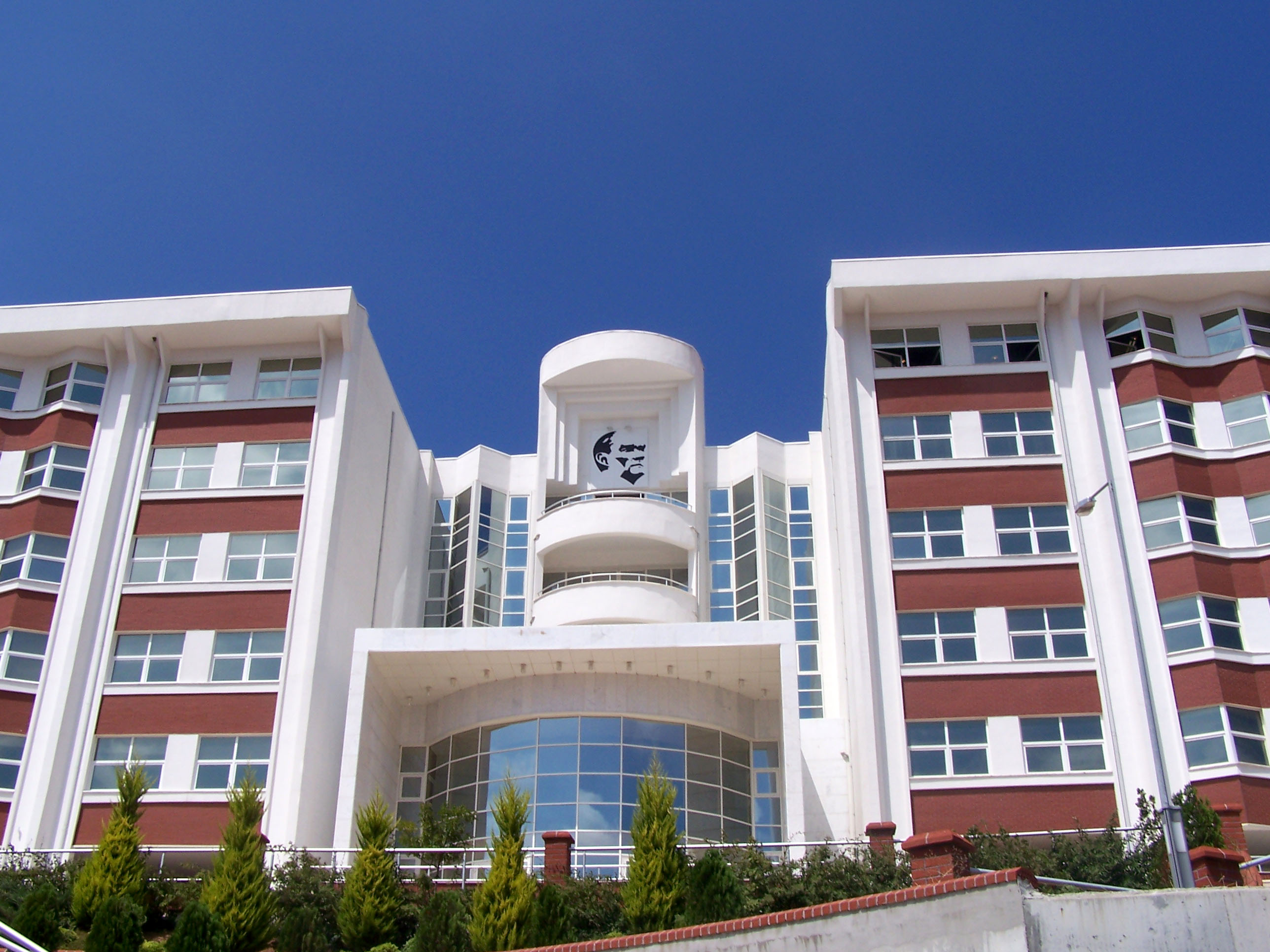 Derslik ve Konferans Salonu Binası (Classroom and Auditorium Building, DK) at the Işık Üniversitesi